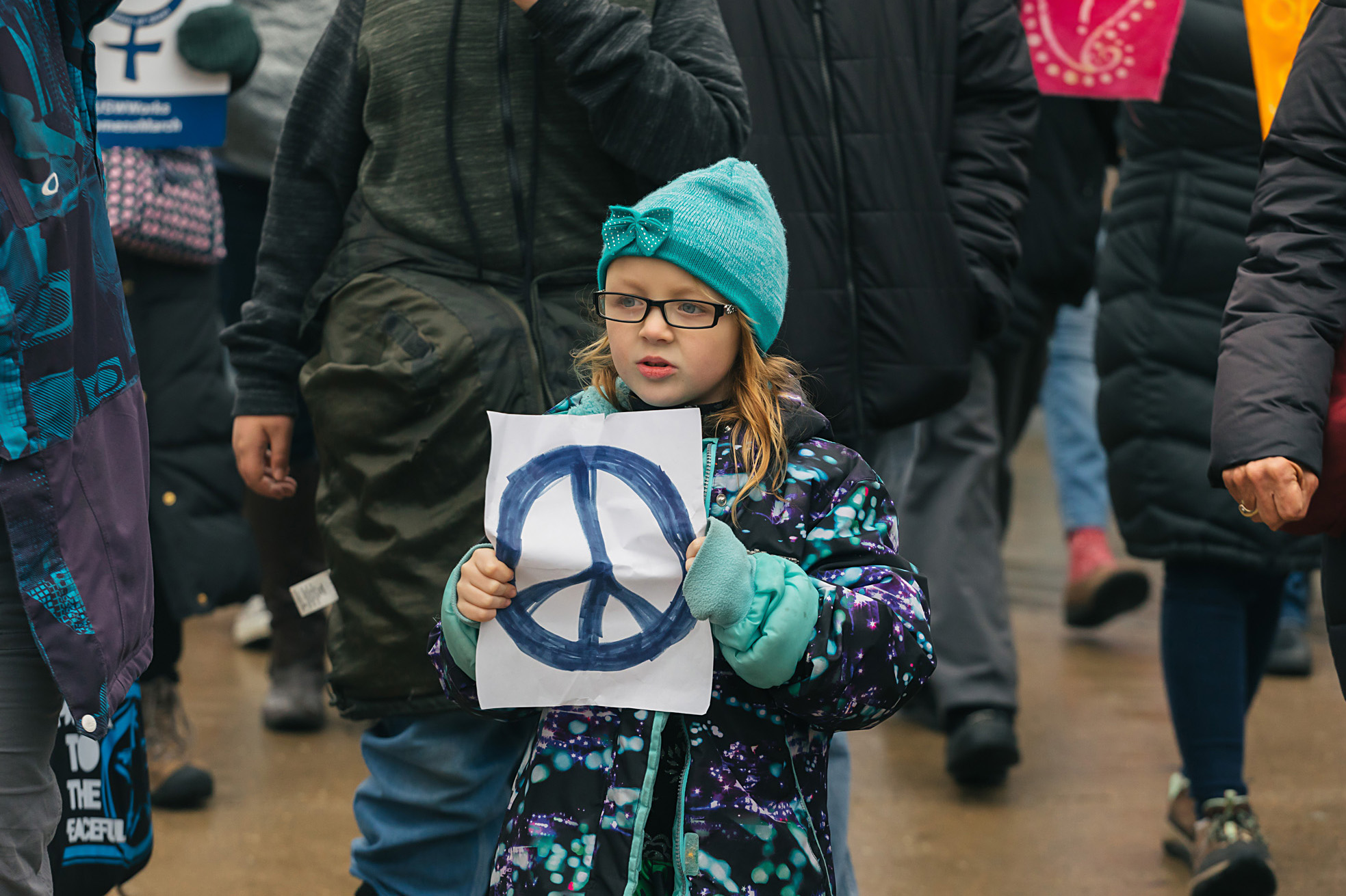 A young girl holds a peace sign during the Madison WI rally for the Women's March on January 21 2017